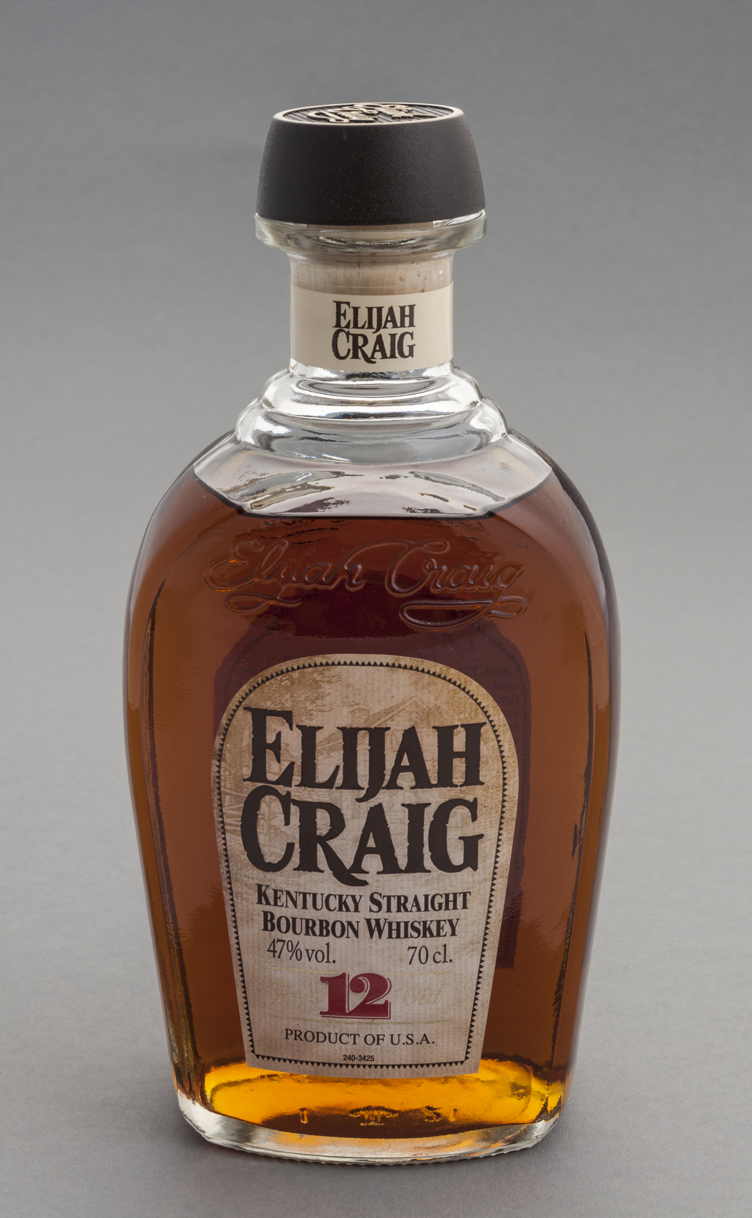 Bottle Elijah Craig Bourbon whiskey